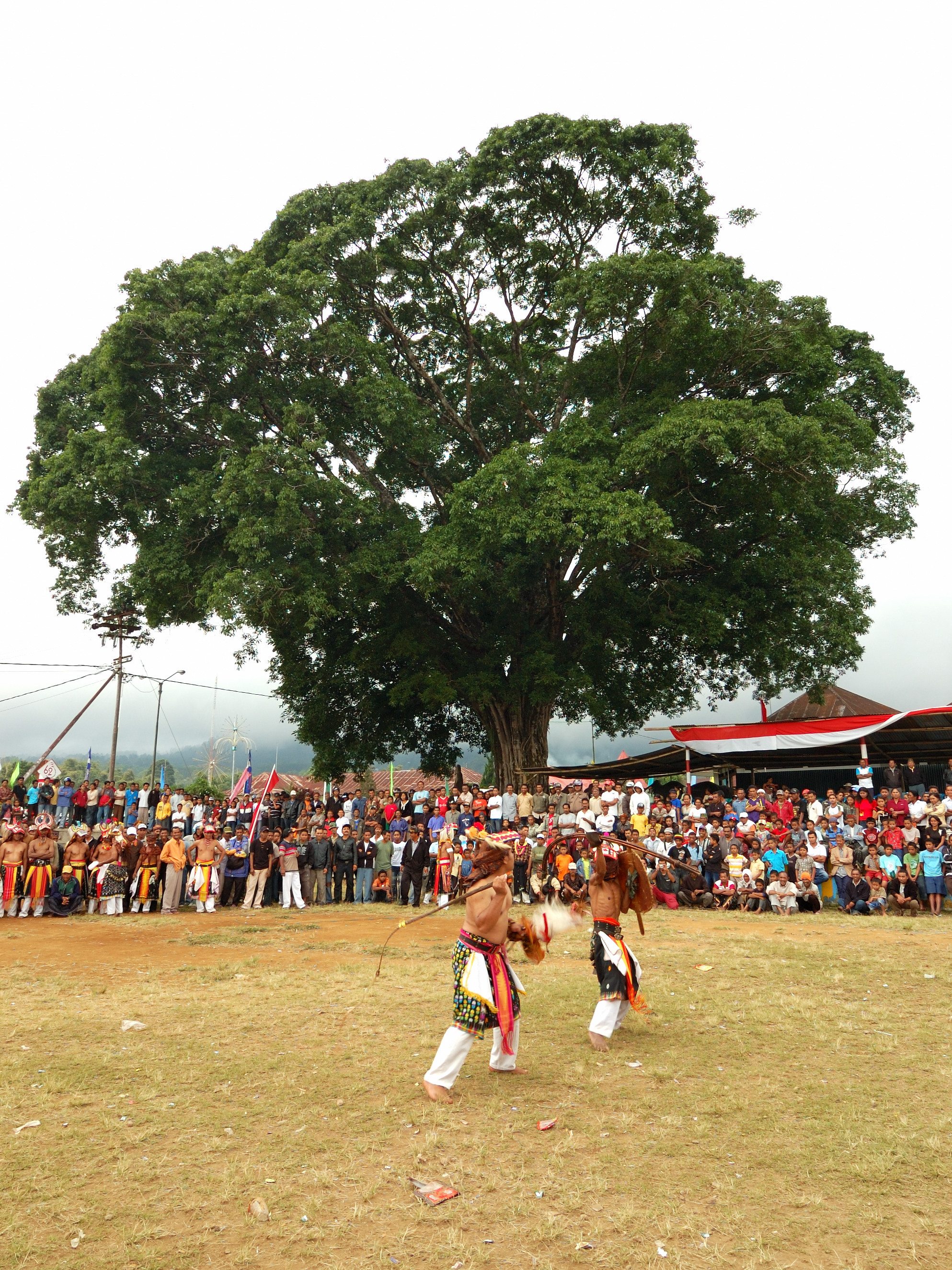 Caci fights, Ruteng, Flores, Indonesia 2007